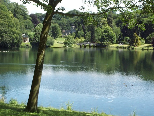 Across the Garden Lake to the Church and Bristol Cross.